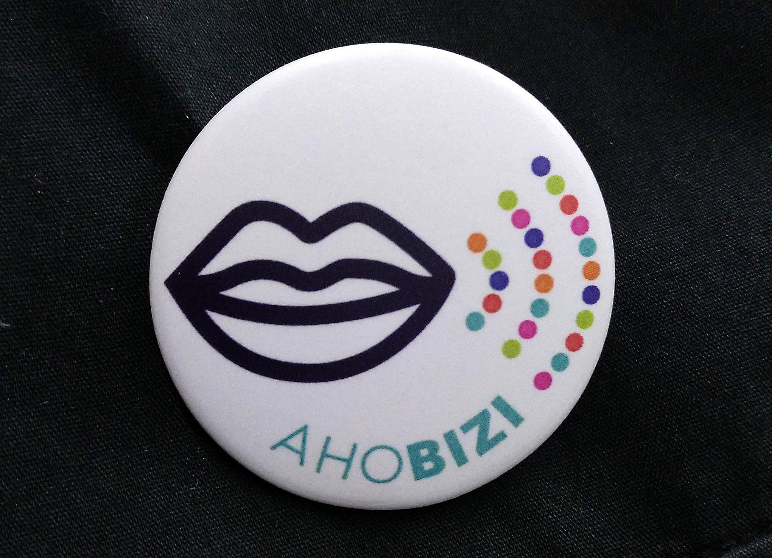 Badge "Ahobizi" for the initiative "Euskaraldia", showing the commitment to speak the first word in Basque